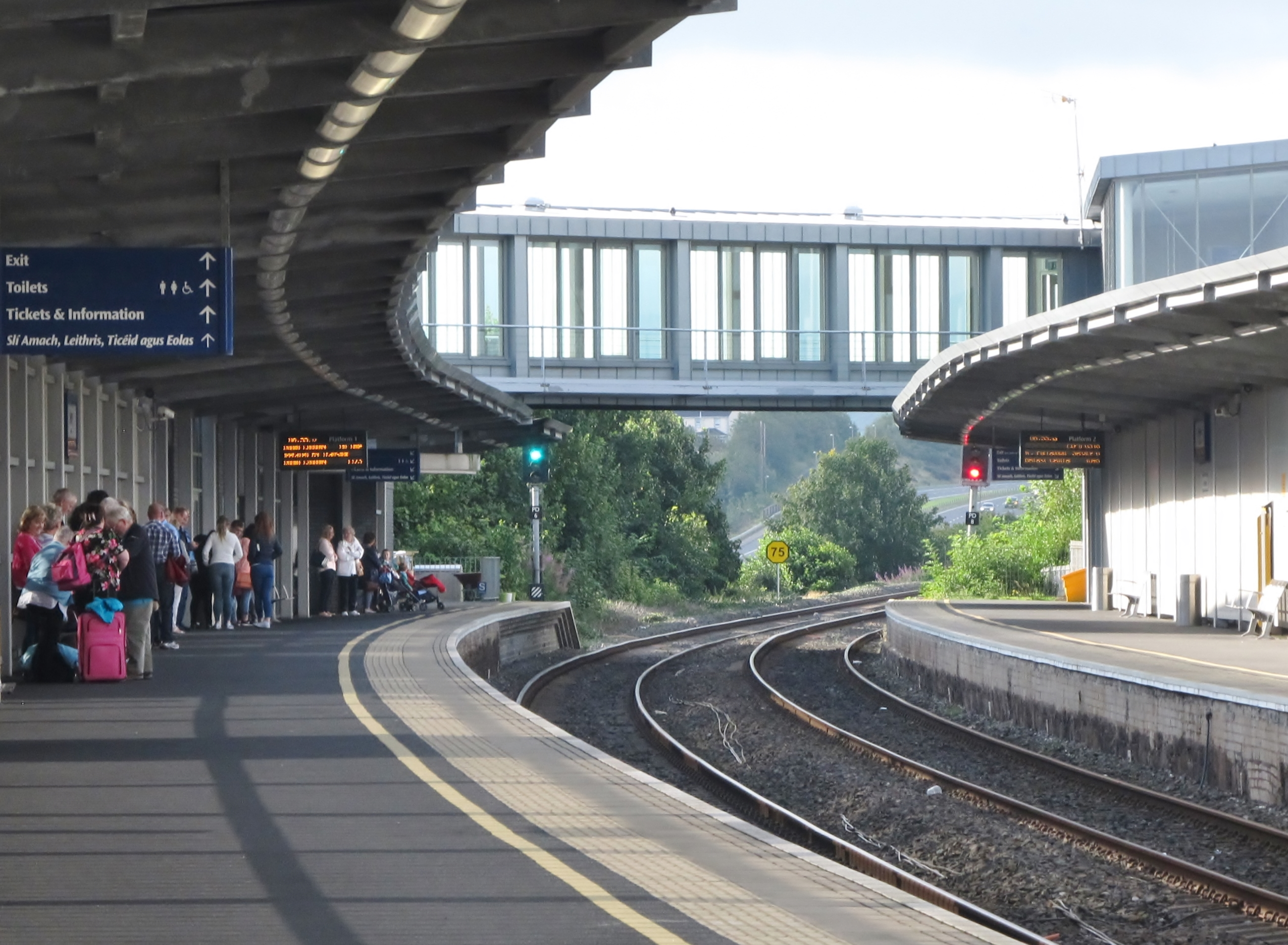 Passengers waiting the arrival of the Dublin bound Enterprise at Newry Station